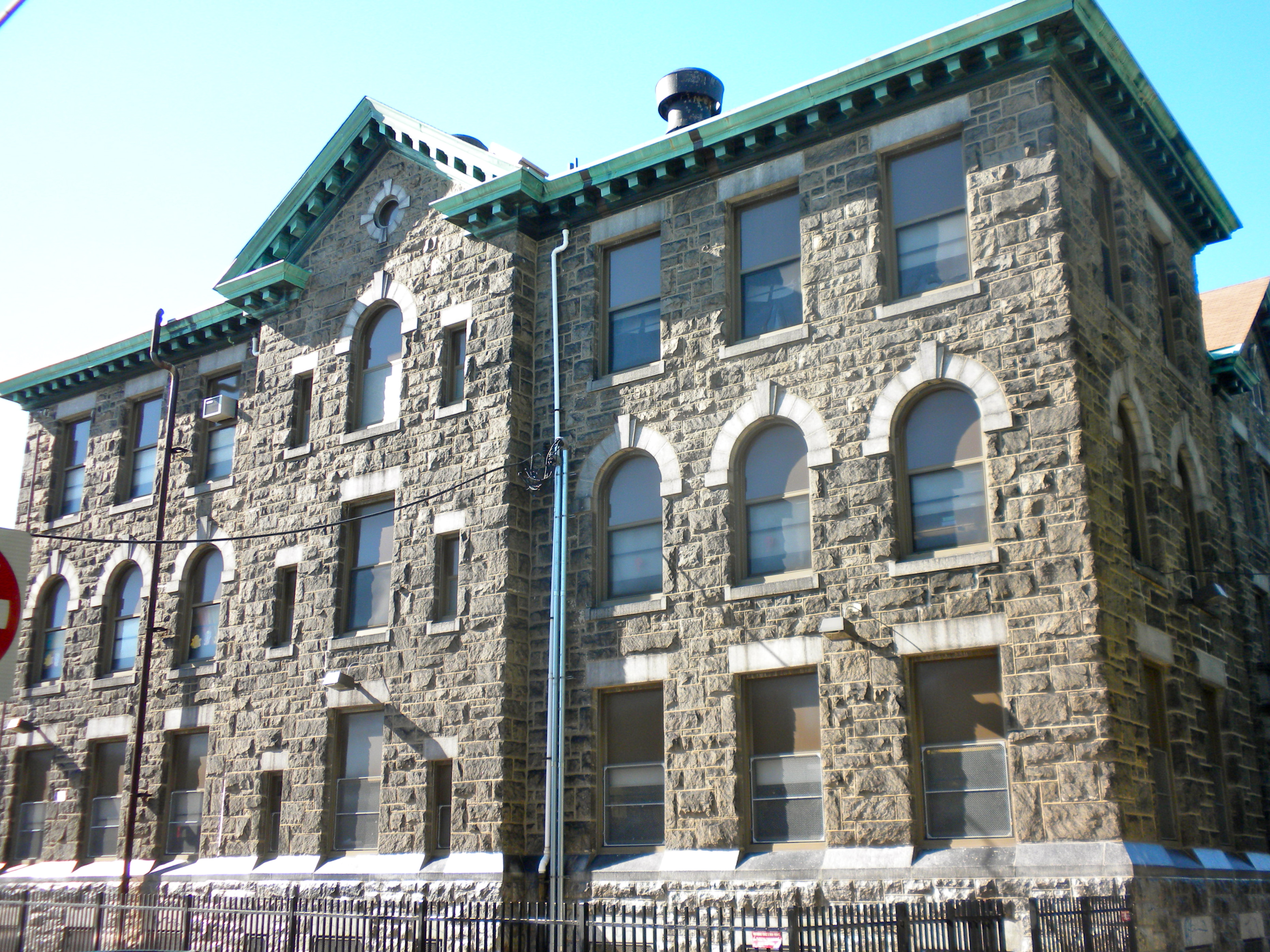 Abigail Vare School on the NRHP since December 4, 1986. At Morris Street and Moyamensing Avenue in Pennsport neighborhood of south Philadelphia, PA. The school has since closed and students relocated to the former George Washington School. The new school is now known as Vare-Washington School